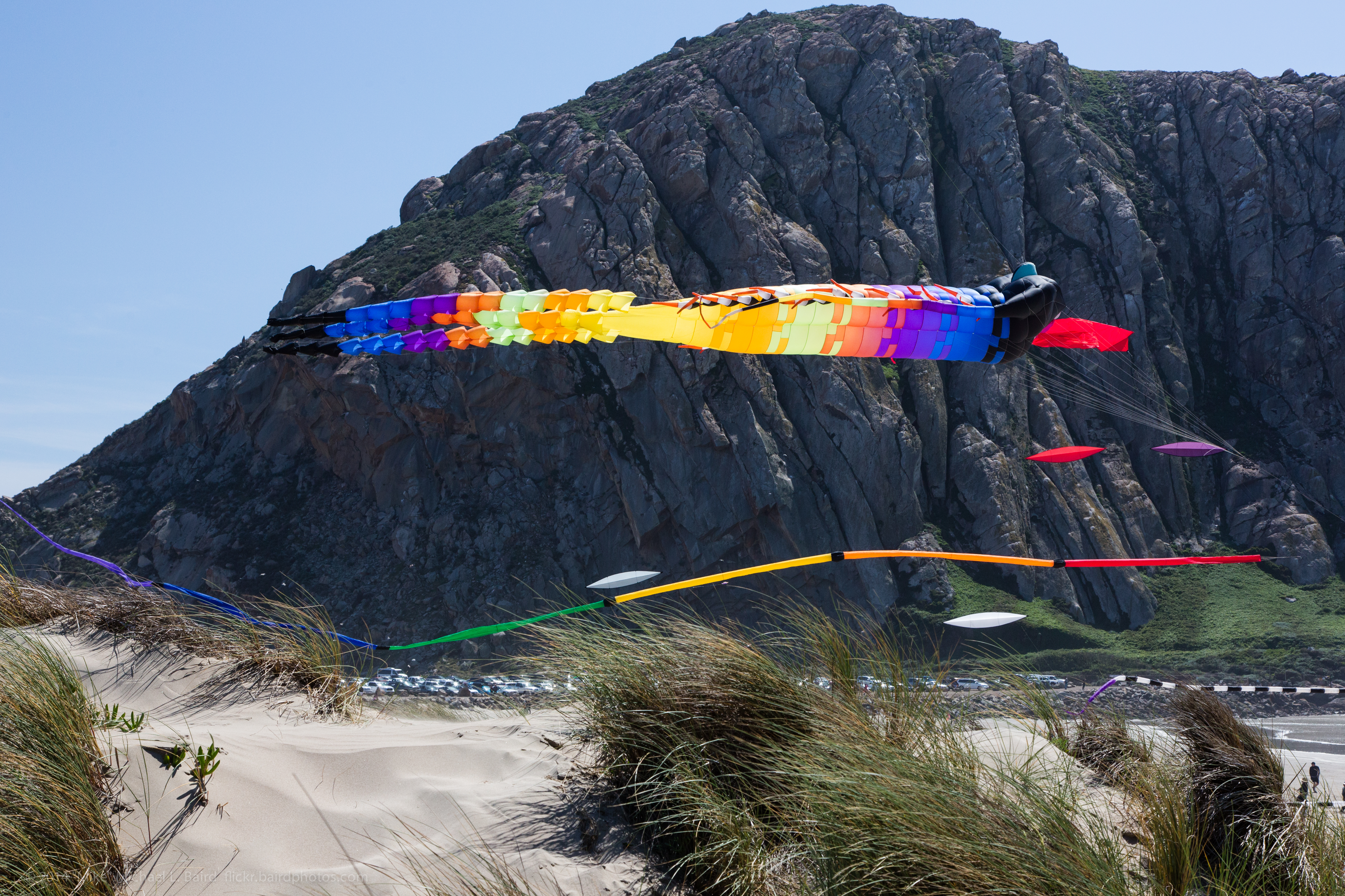 Morro Bay Kite Festival, 26 April 2014, Morro Bay, CA. Kites of all sizes are flown just north of Morro Rock in this annual event. In the morning the wind was a nil 7 mph, but it picked up in the afternoon to 15-20+ mph, making it impractical to walk on the beach without getting sand in one’s eyes and equipment. Photo © 2014 “Mike” Michael L. Baird, mike {at] mikebaird d o t com, . Canon 5D Mark III, with Canon EF 24-105mm f/4 L IS USM Lens w/ circular polarizer, handheld, RAW. See EXIF for exposure settings. GPS EXIF geotag comes from a realtime on-camera Canon GP-E2 GPS Receiver. To use this photo, see access, attribution, and commenting recommendations at - Please add comments/notes/tags to add to or correct information, identification, etc. Please, no comments or invites with badges, images, multiple invites, award levels, flashing icons, or award/post rules.